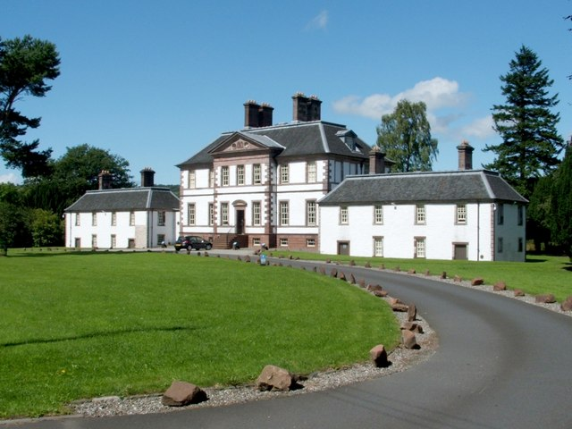 Strathleven House. This is another view of a building that is described and illustrated here: 450788. The nearby doocot is shown here: 1058767. When touring the building on an earlier occasion, I was able to pick up some very detailed material about its history, including architectural plans. Only a very small part of this material is summarized below. Although the detailed reasons would be too lengthy to recount here, it is generally thought that the hand of the architect James Smith can be seen in the design of the building, which was originally called Levenside House. The date above the pediment is 1708, but it seems originally to have read 1700, perhaps indicating two phases of construction (possibly of the main body and then the wings). It was built for William Cochrane of Kilmarnock. When he died in 1717, the house was acquired by Archibald Campbell of Stonefield; it later passed to his son, John Campbell, who died in 1801. In 1830, the house was bought by James Ewing (Provost of Glasgow in 1831); he was responsible for greatly enlarging the estate, and he changed its name, and that of the house, to Strathleven. The house eventually passed to his nephew, Alexander Crum Ewing, and remained in that family until it was compulsorily purchased by the Board of Trade in 1947; it later become a part of Strathleven Industrial Estate. At the time when this photo was submitted, the building was being leased by the Strathleven Regeneration Company, and was being used as a business centre.